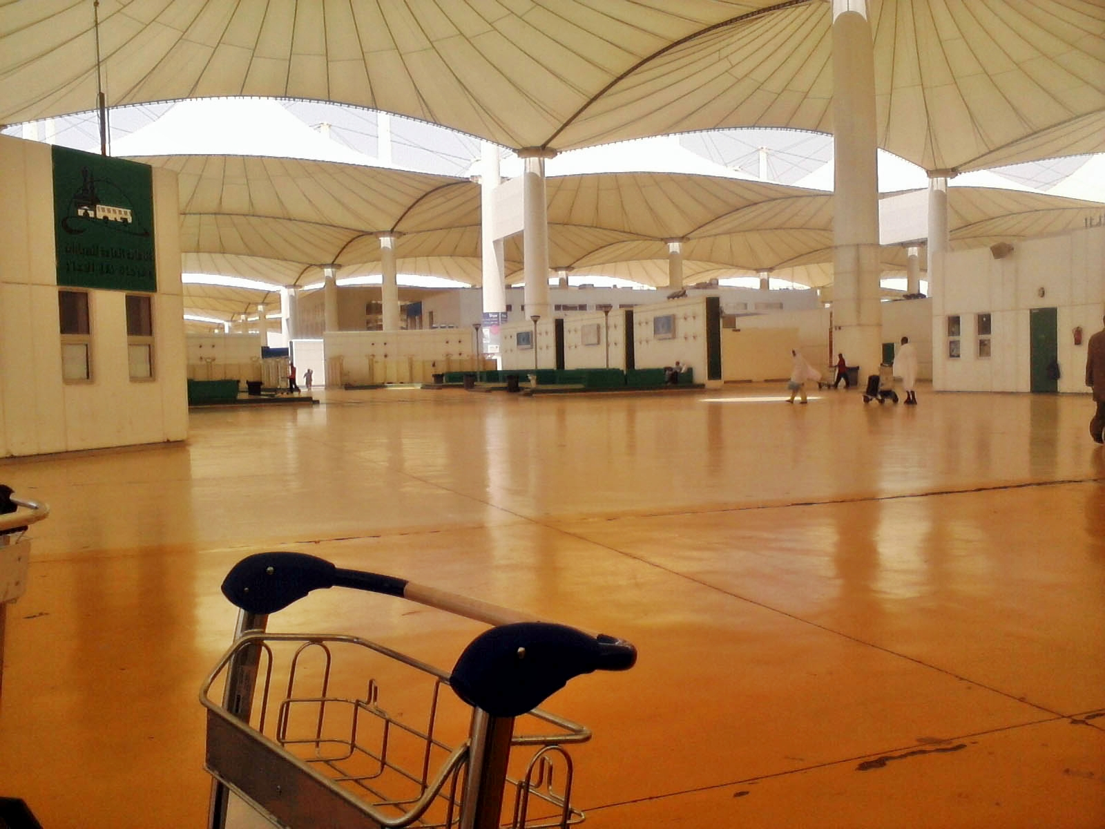 Hajj Terminal of King Abdul Aziz International Airport, Jeddah.